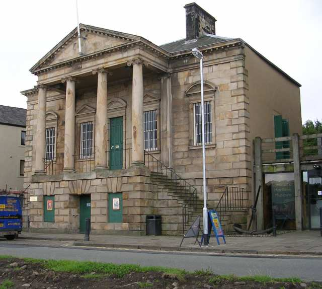 Custom House - St George's Quay Built in 1764/65 by Richard Gillow, it now houses the Maritime Museum.